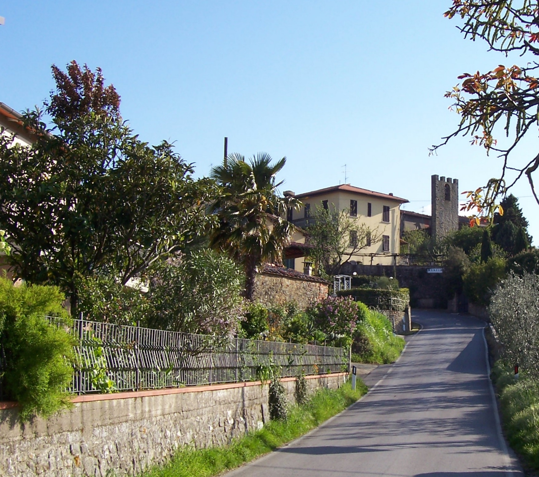 Ruins of the ancient Moncione Castle walls (left side) viewed from the street coming from Montevarchi.